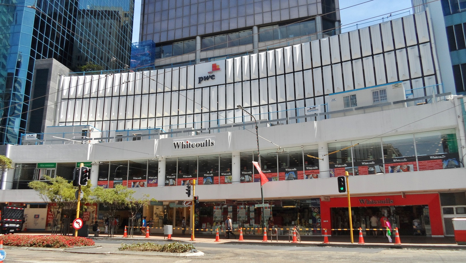 Lambton Quay branch of New Zealand book and stationery retailer Whitcoulls in Wellington in 2015.